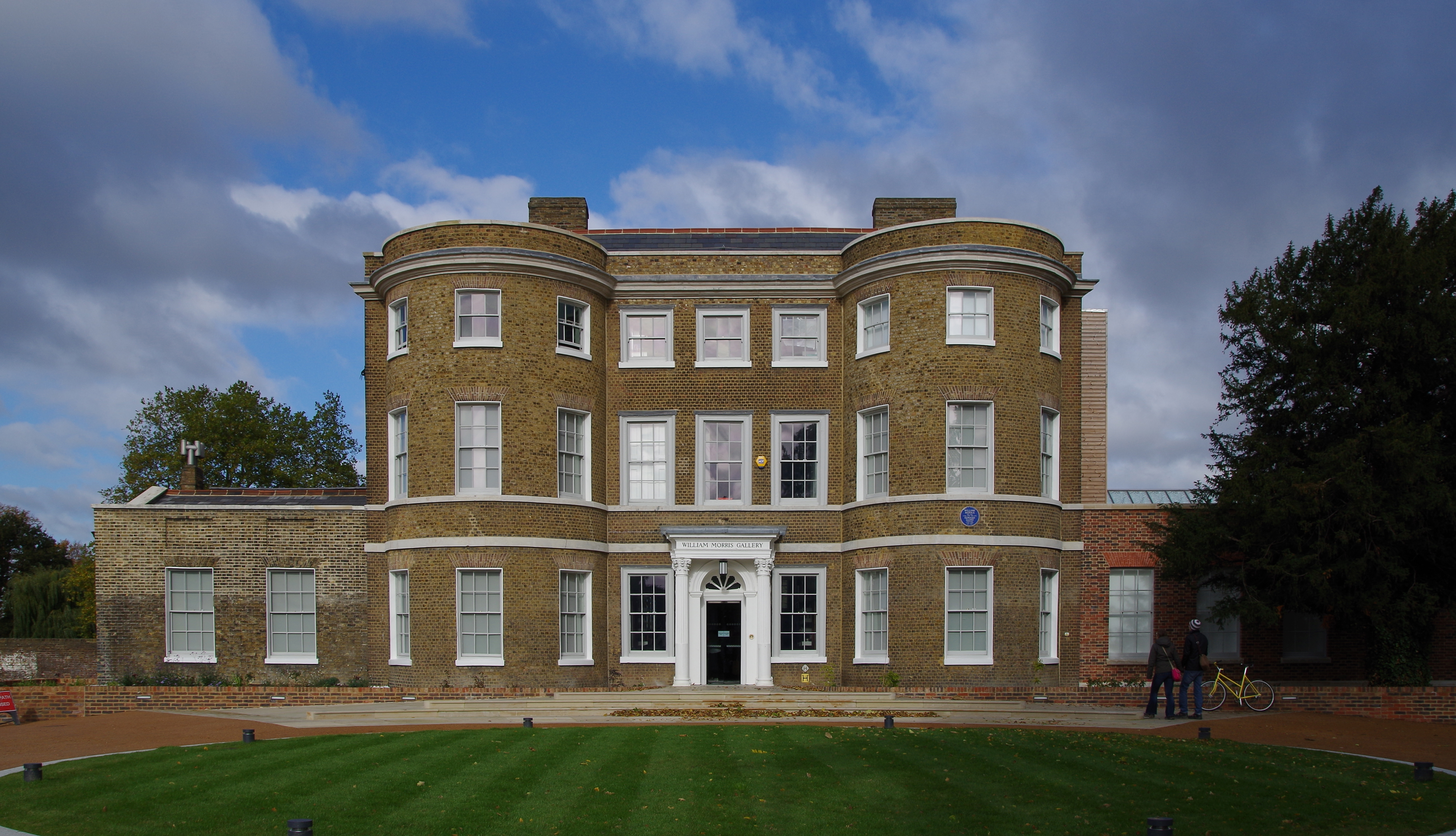 William Morris Gallery, Walthamstow London E17, view of the front.